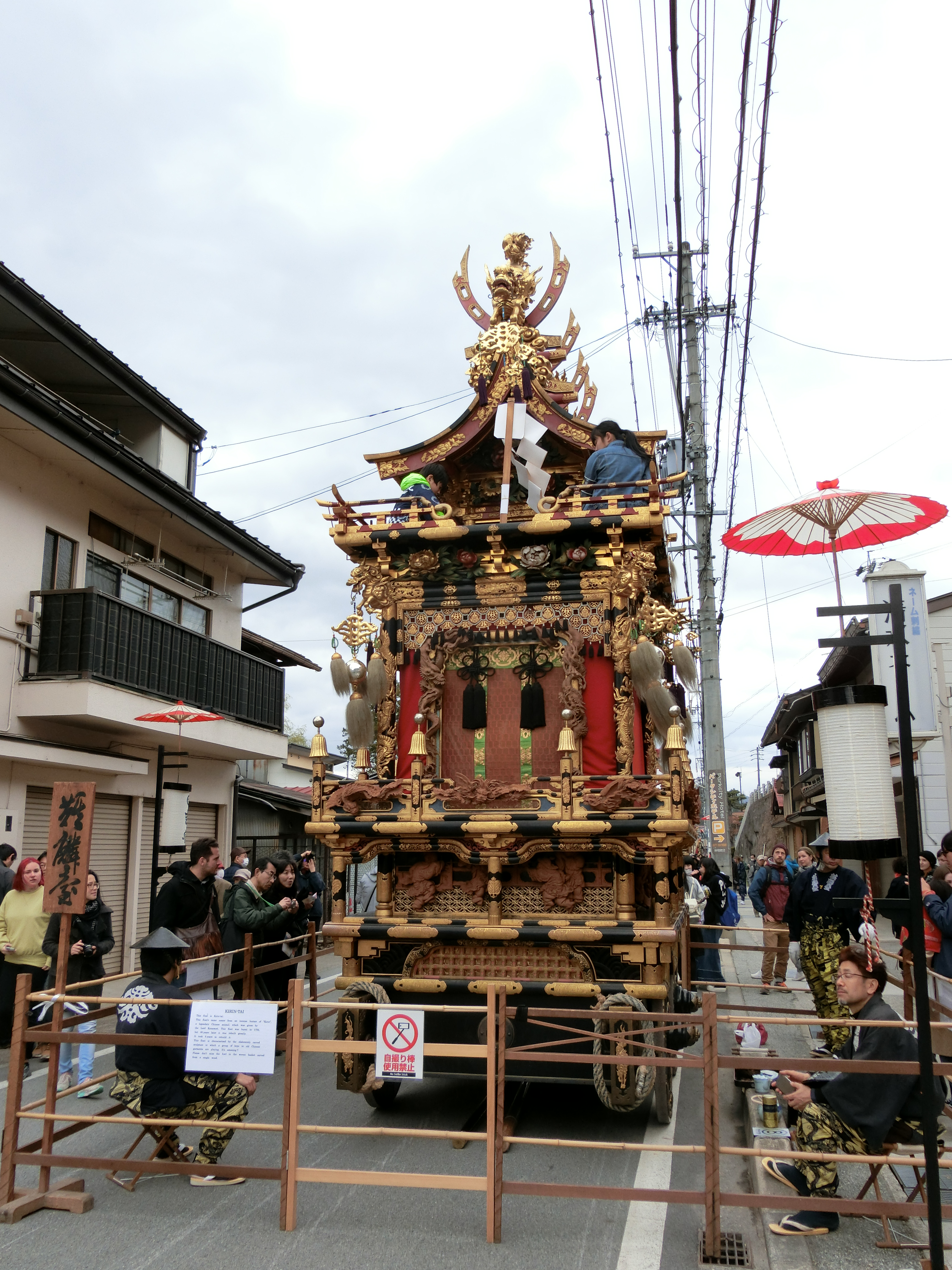 Kirin-tai float, Takayama festival.